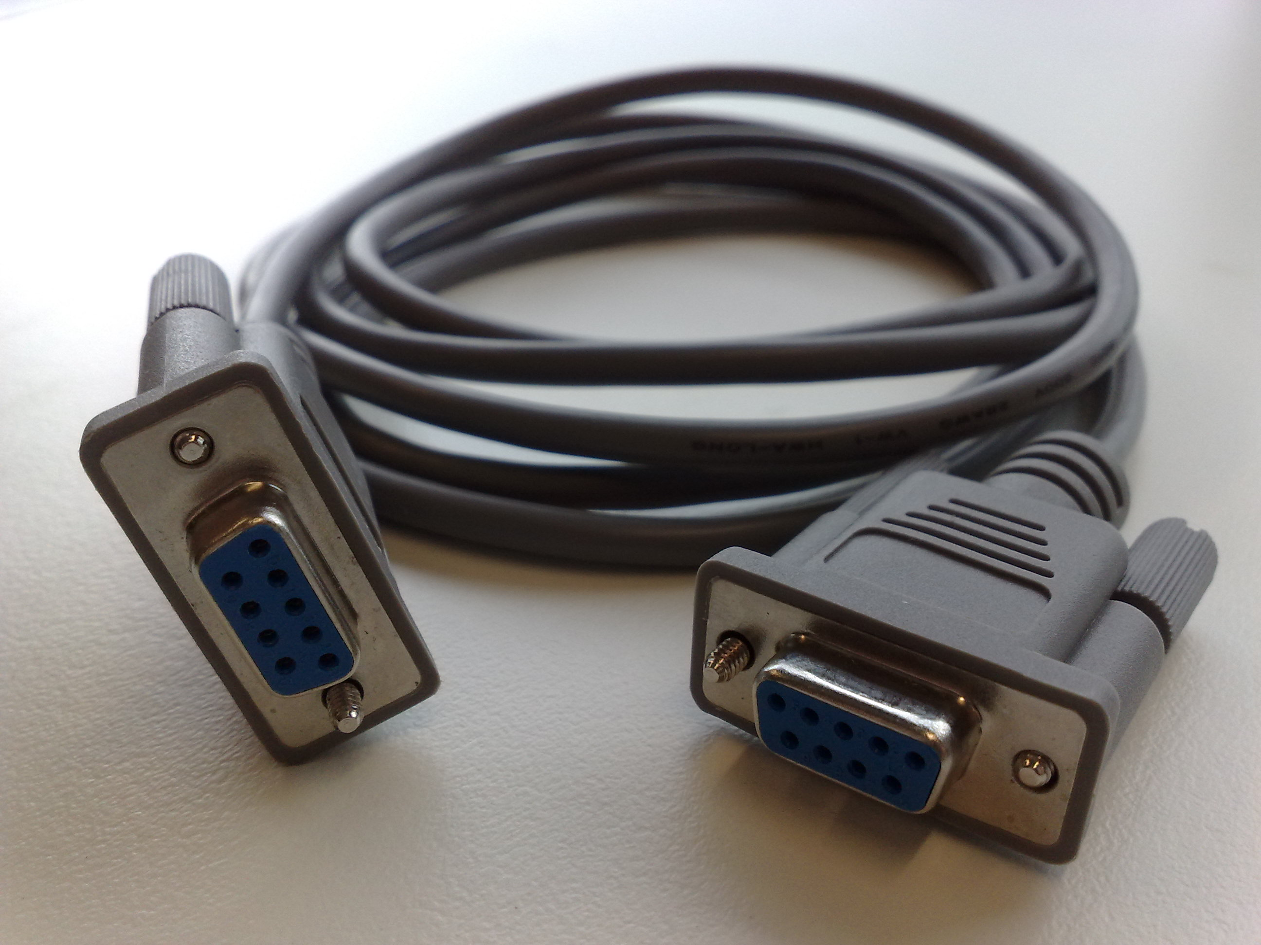 A serial cable with DE9 (DB9) connectors.